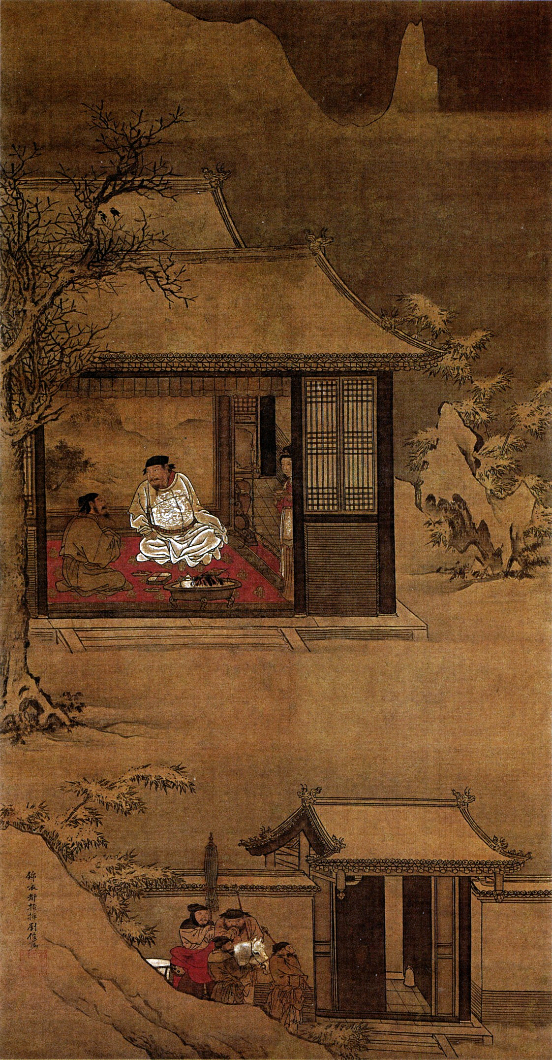 Visiting Pu on a Snowy Night, hanging scroll, color on silk, 147 x 75 cm. This painting is from the story of Emperor Taizu of Song visiting his minister Zhao Pu. Located at the Palace Museum.